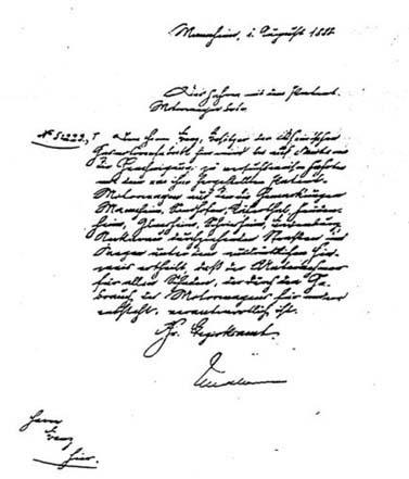 The world's first drivers' license, issued by the Großherzoglich Badisches Bezirksamt to Karl Benz upon his request.